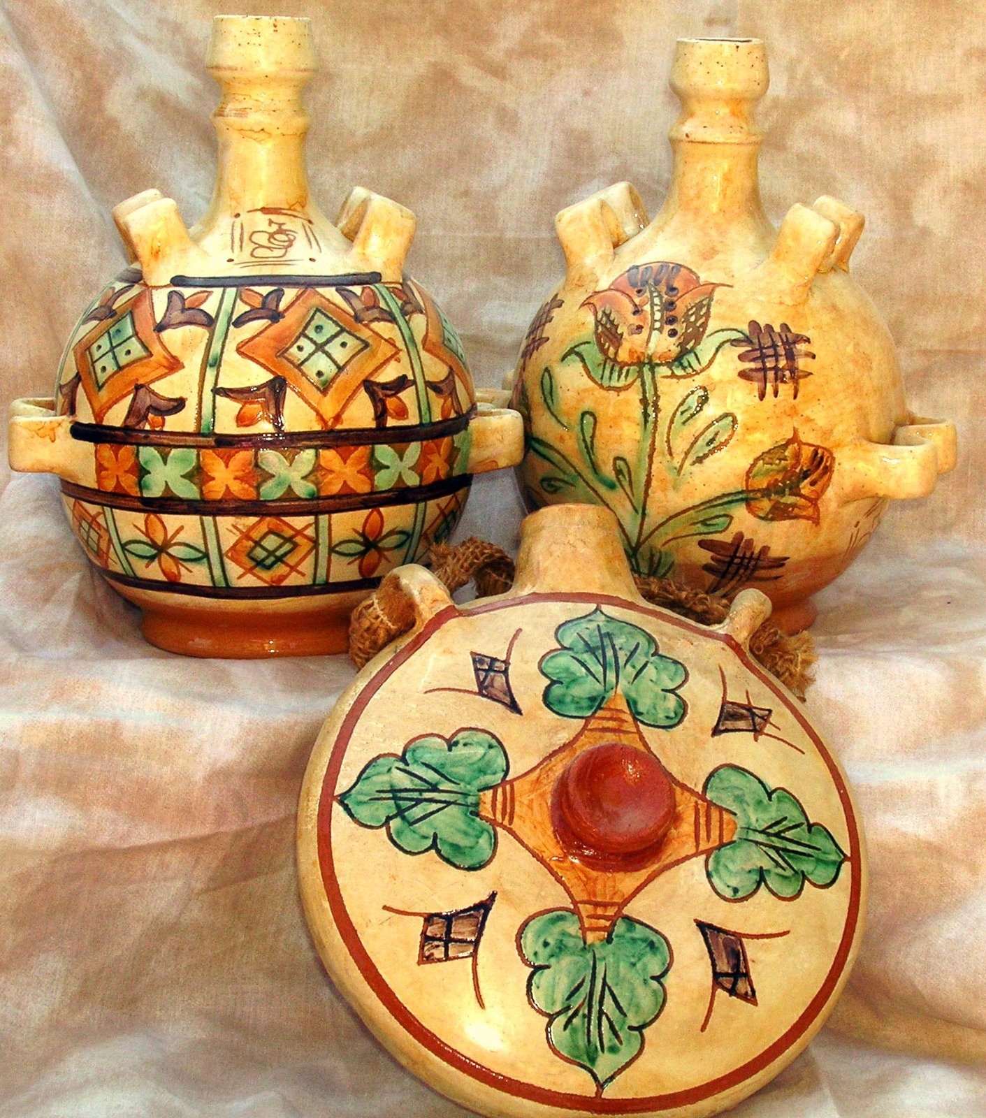 Wayfarer pitcher Ingrestarie handmade in a ceramic shop in Mantova